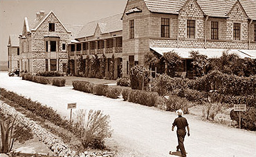 Old picture for PTUK